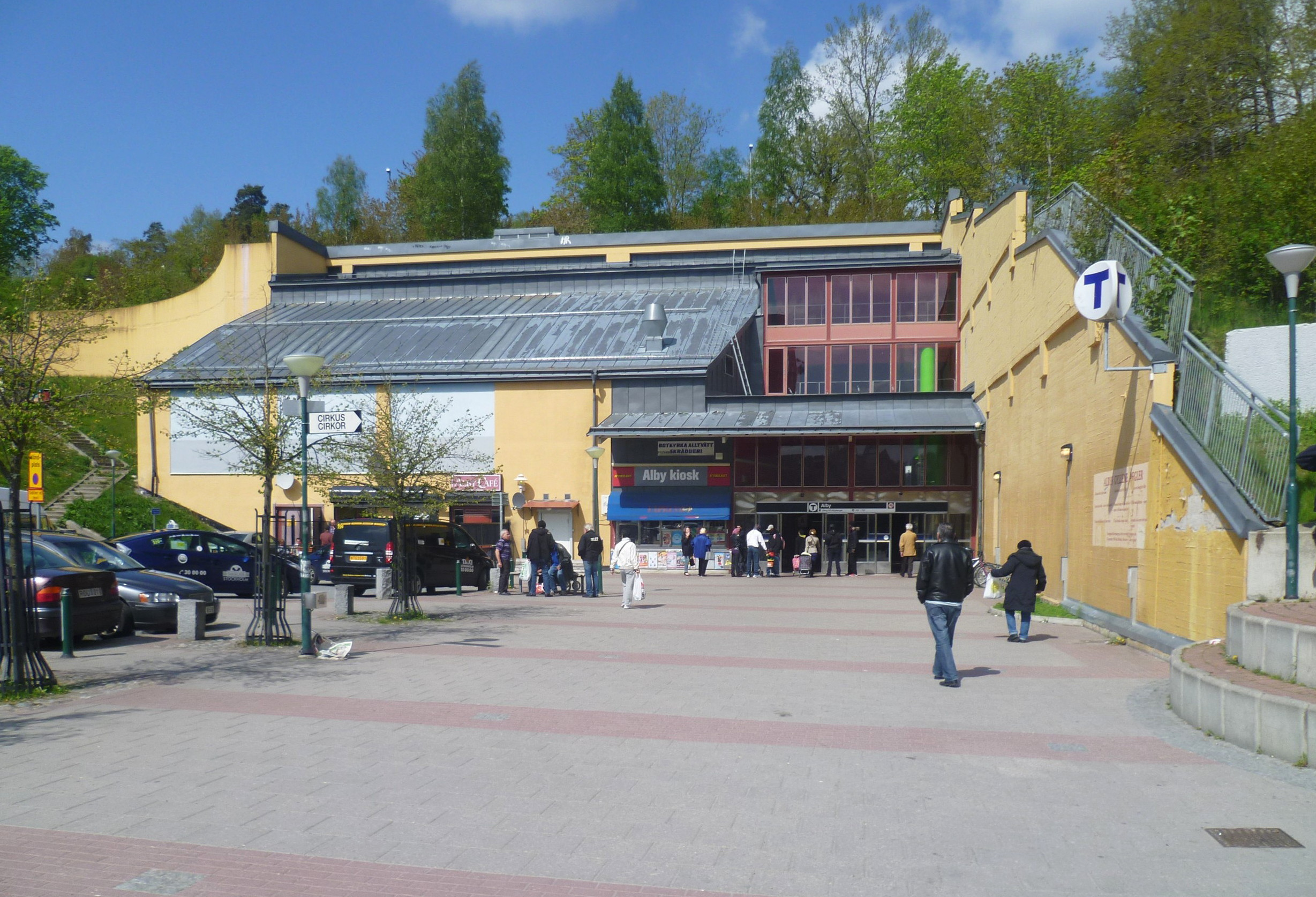 The entrance to Alby metro station, suburb to Stockholm Sweden